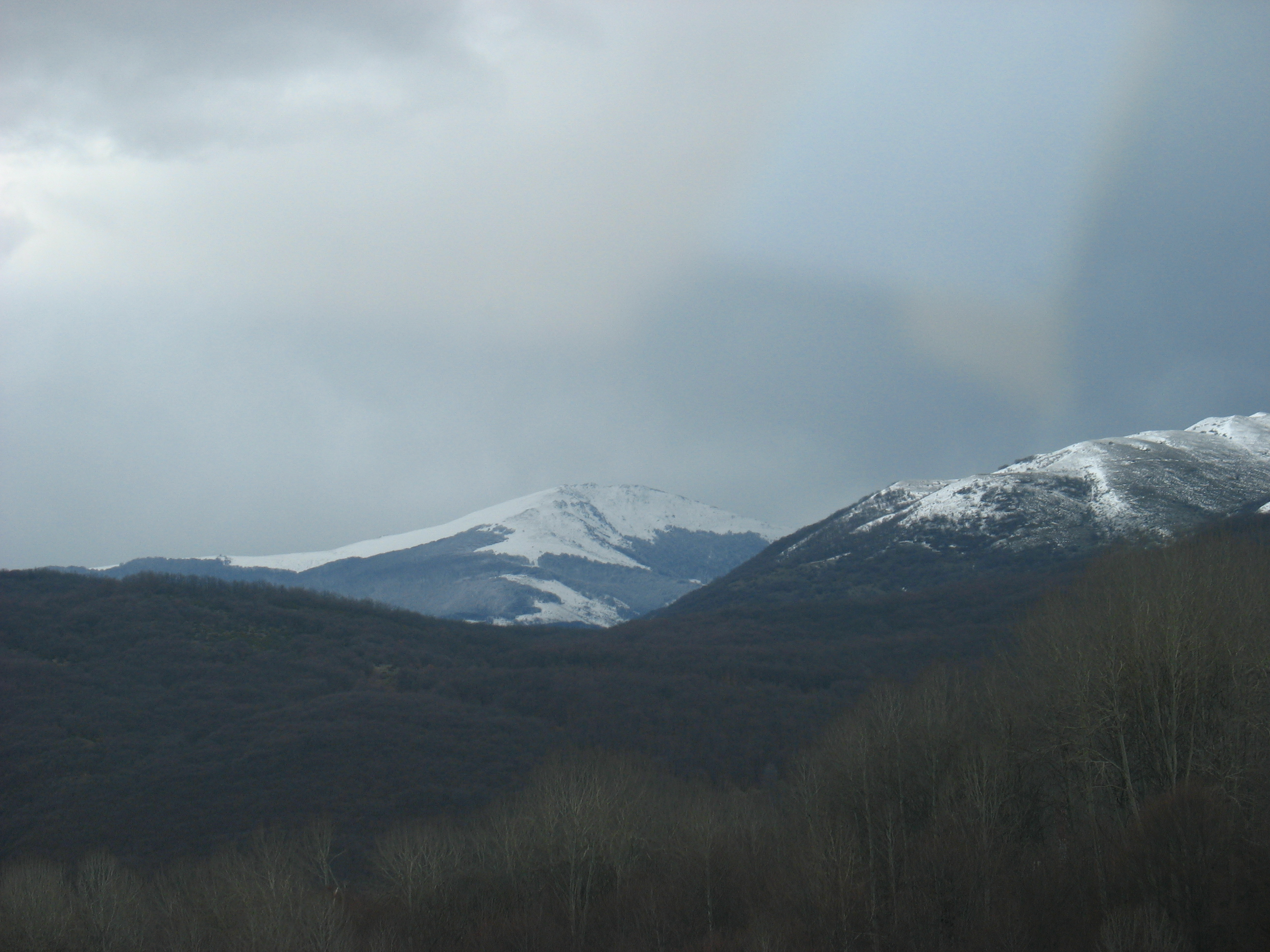 Dobra Voda Mountain, Macedonia